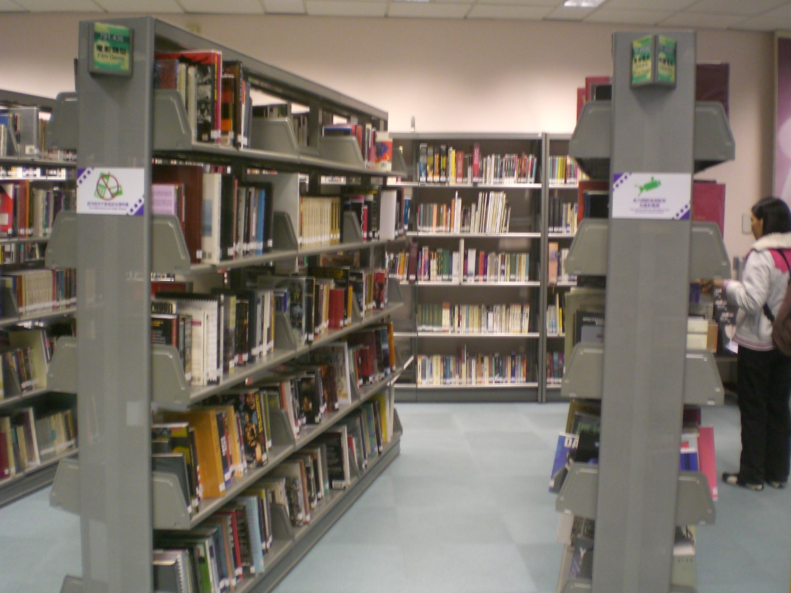 鯉景道香港電影資料館內的一個參考圖書館